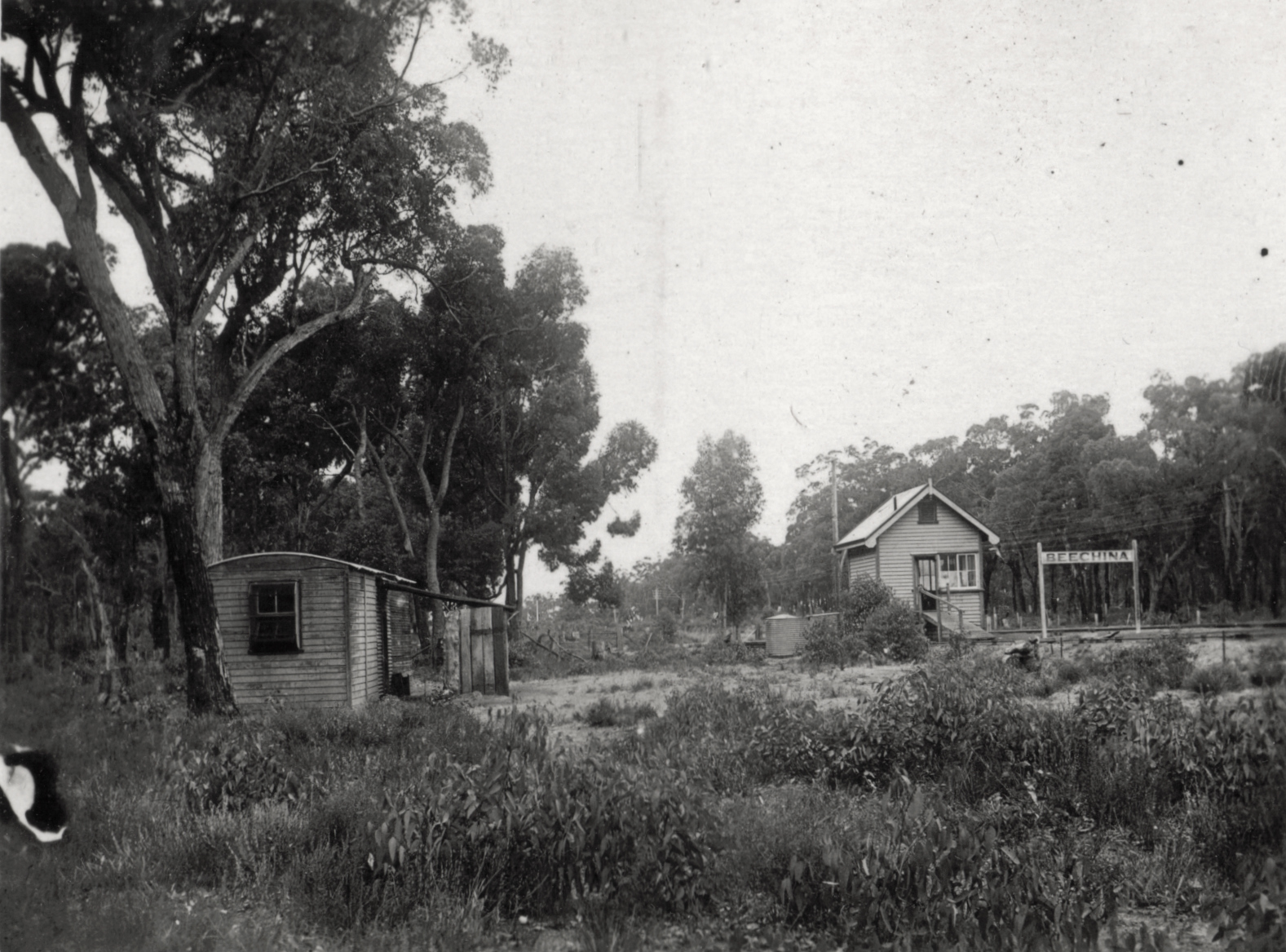 Beechina, 18 february 1927, f22 1sec